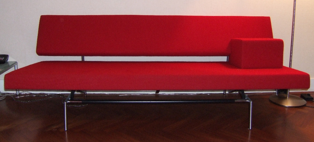 Sofa bed